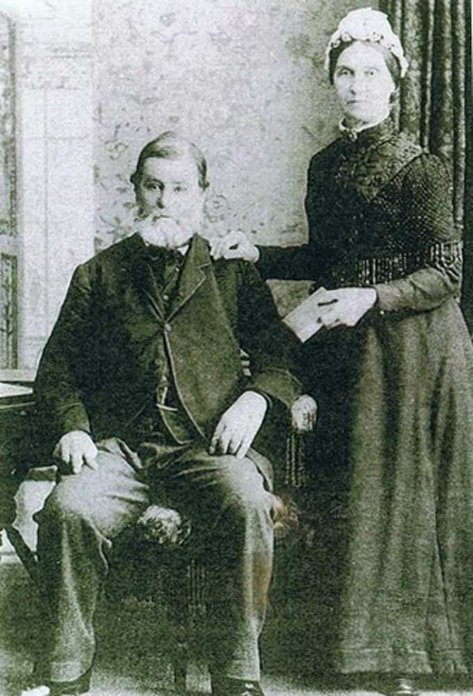 Thomas Jillett and his wife Mary Ann circa 1870. Thomas was the owner of the Callington Mill, Oatlands, Tasmania.